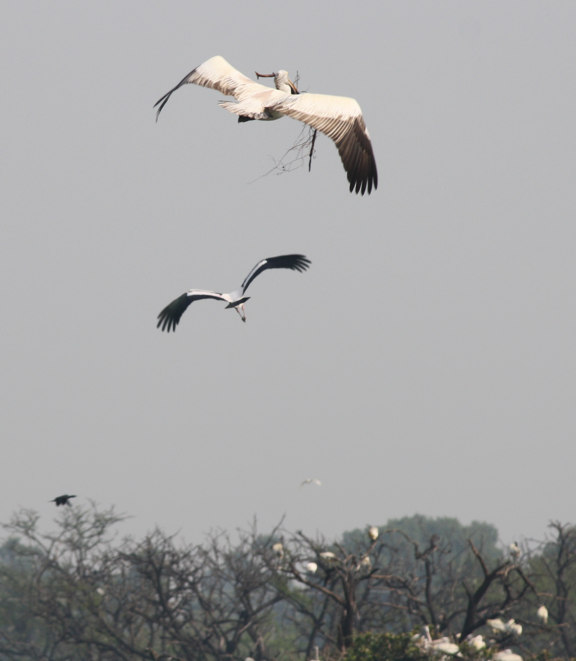 Spot-billed Pelican (also known as Grey Pelican, Pelecanus philippensis) with twigs for its nest is flying above a Painted Stork (Mycteria leucocephala) in flight at Vedanthangal Bird Sanctuary, Tamil Nadu, India